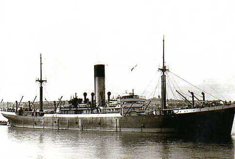 Postcard of the cargo steamship Meriones scanned image from personal postcard collection. There is no copyright attribution but the card has a postmark dated 1923.